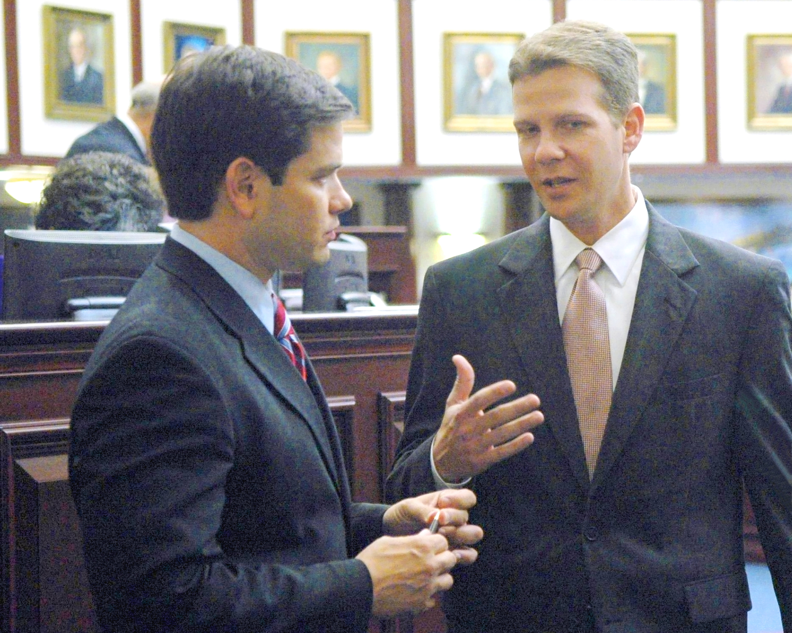 Rep. Andy Gardiner, R-Orlando, right, and Speaker-Designate Marco Rubio, R-Miami, left, confer on the House floor during the 2006 Legislature in Tallahassee, Florida.